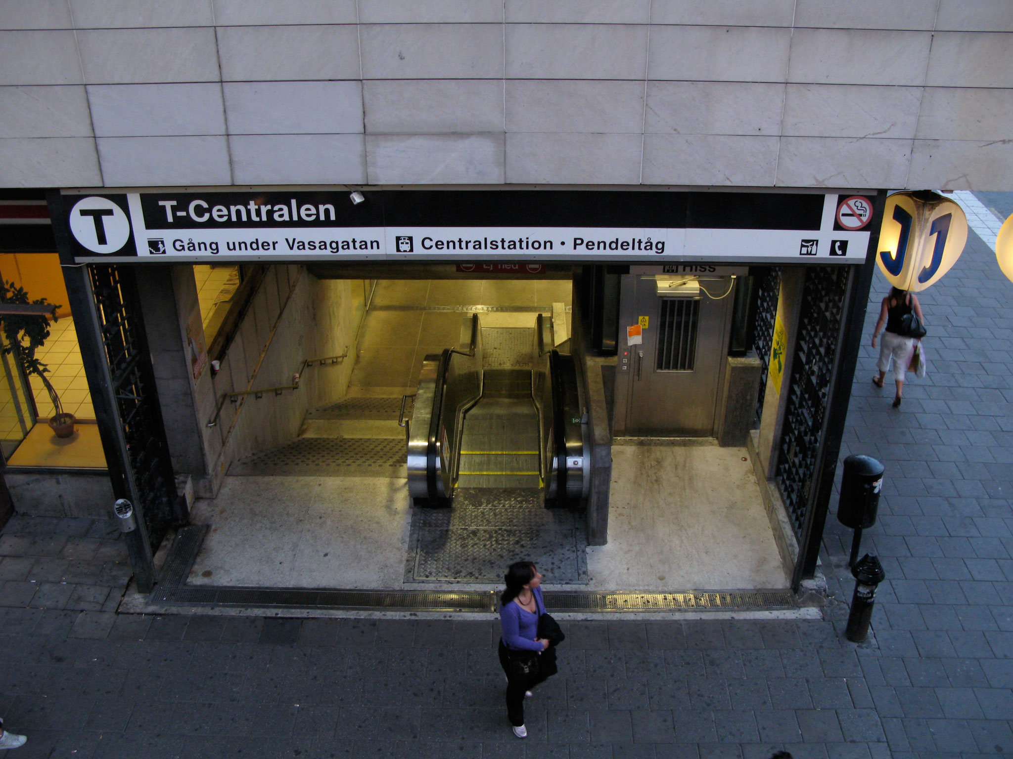 T-Centralen metro station, Stockholm - Vasagatan entrance